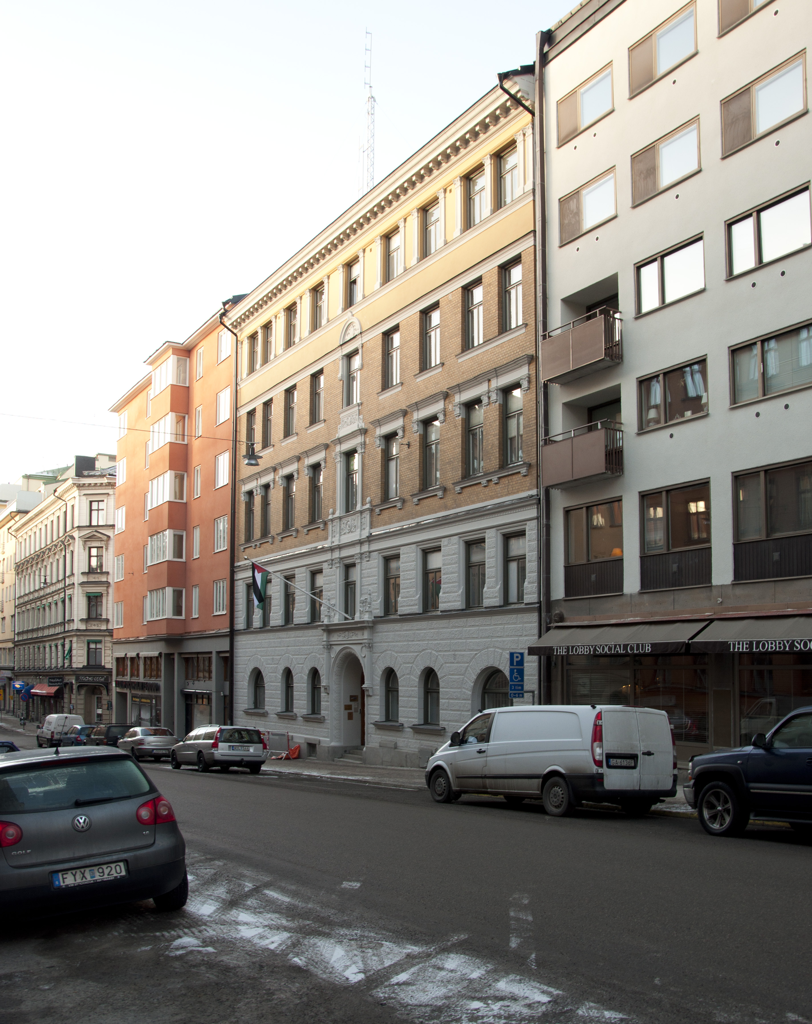 General Delegation of Palestine, Stockholm